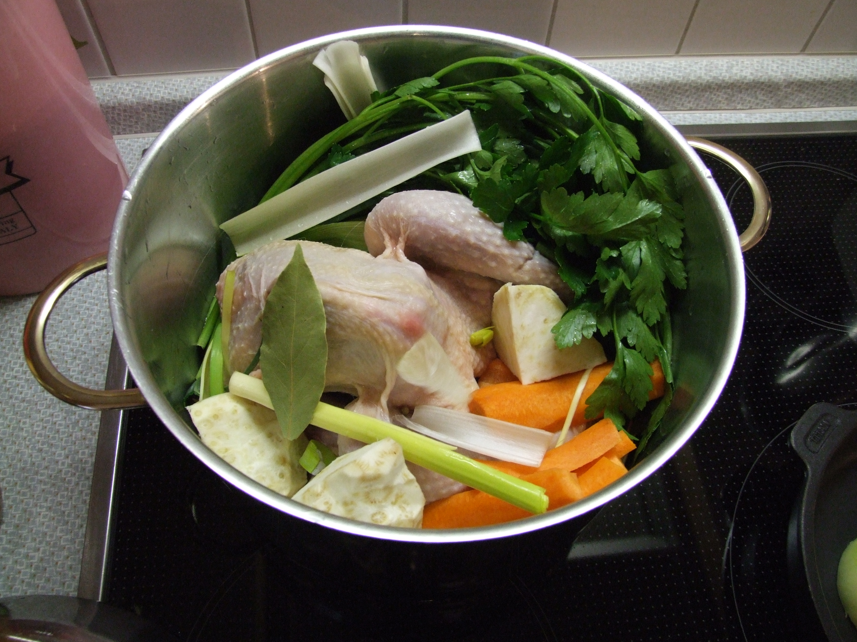 Chicken soup